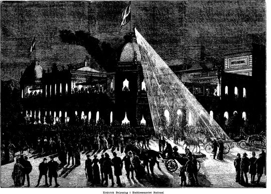 The opening night of Etablissementet National in Copenhagen, Denmark. Illustration from Illustreret Tidende, July 30, 1882.